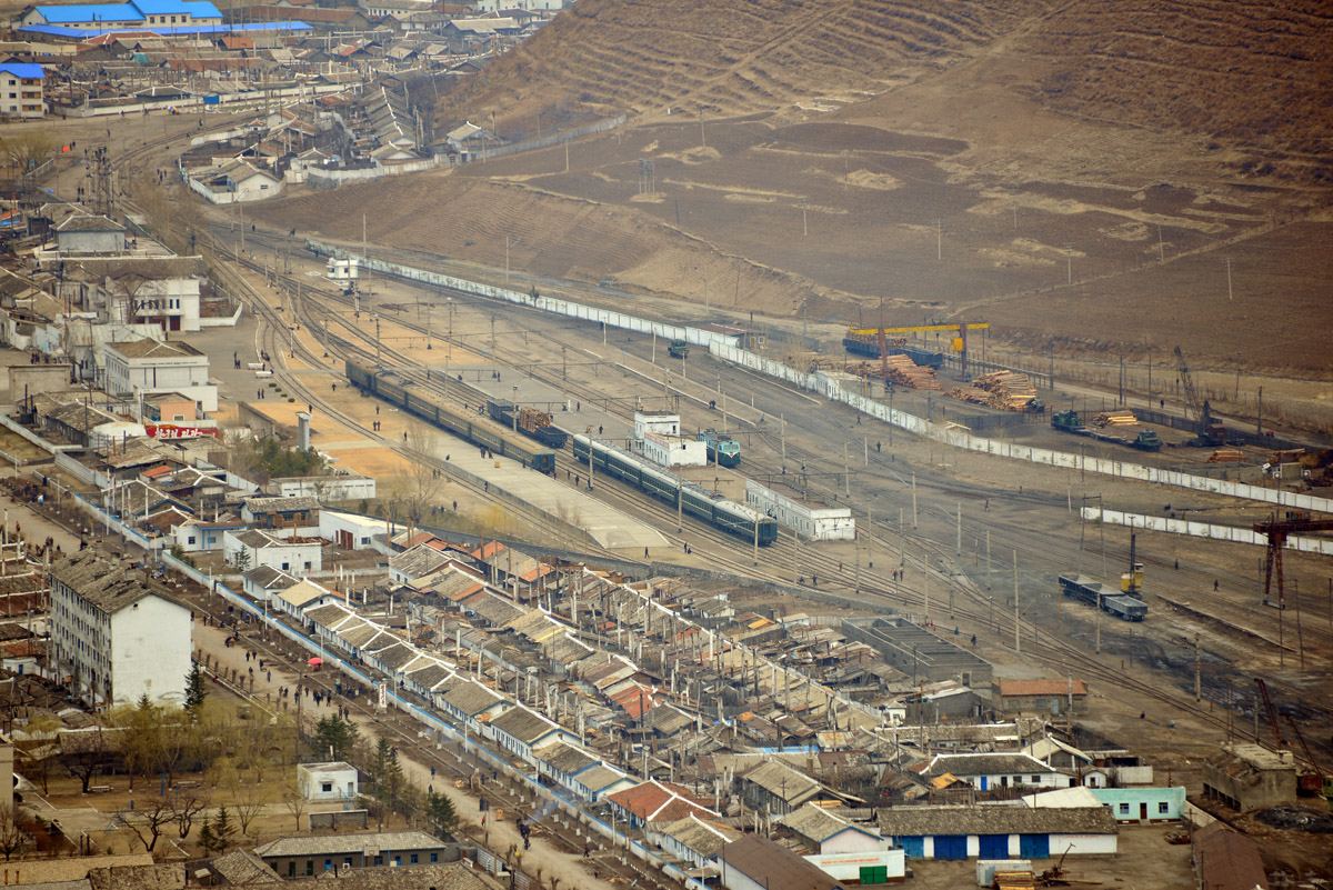 The North korea railway Paengmu Line Musan sation 朝鲜铁路白茂线以及咸北线茂山支线 茂山车站 무산역 Musan